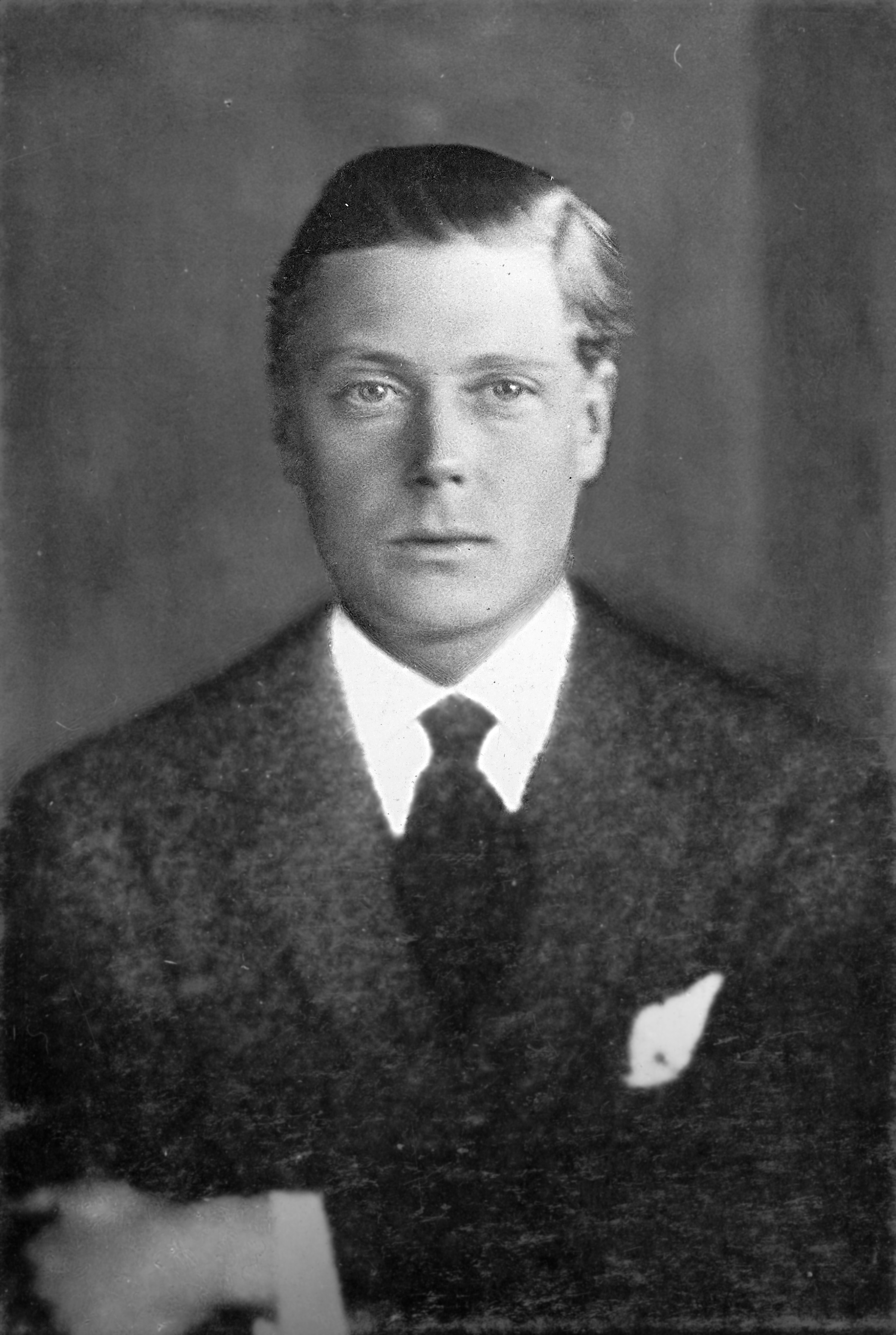 Depicted person: Edward VIII – king of the United Kingdom and its dominions in 1936 This is a retouched picture, which means that it has been digitally altered from its original version. Modifications: contrast & sharpness enhanced, desaturated. Modifications made by PawełMM.